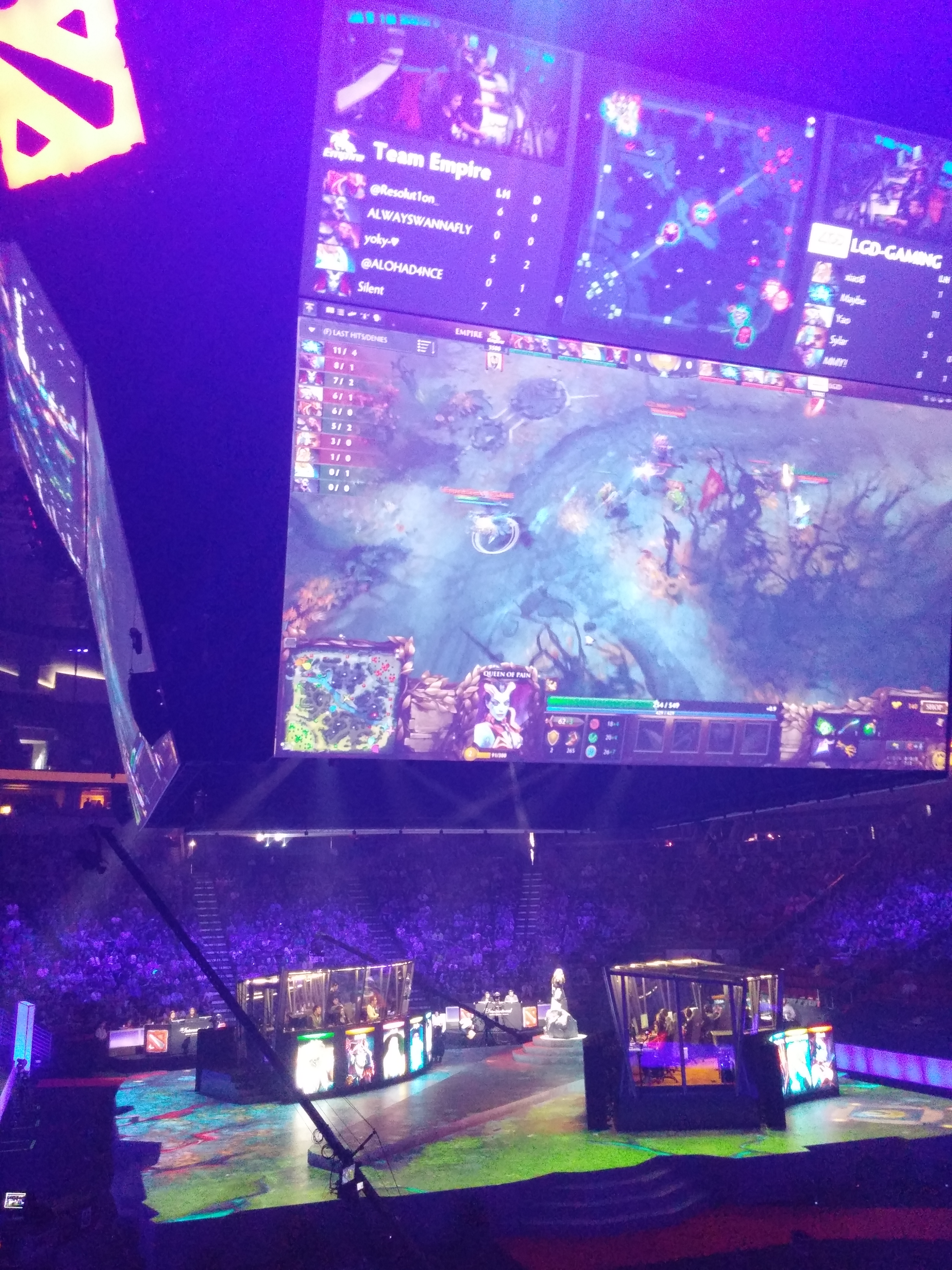 The International 5 Dota 2 at Key Arena, Afterparty at the Emp